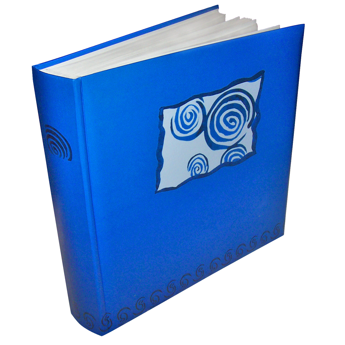 A classical photo album